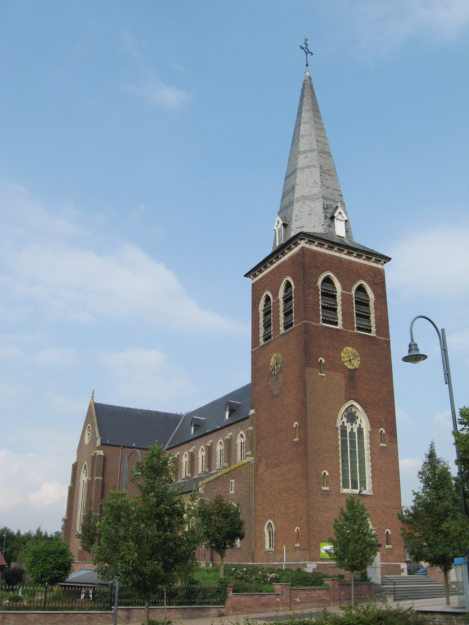 Church of Saint Peter in Gingelom, Limburg, Belgium